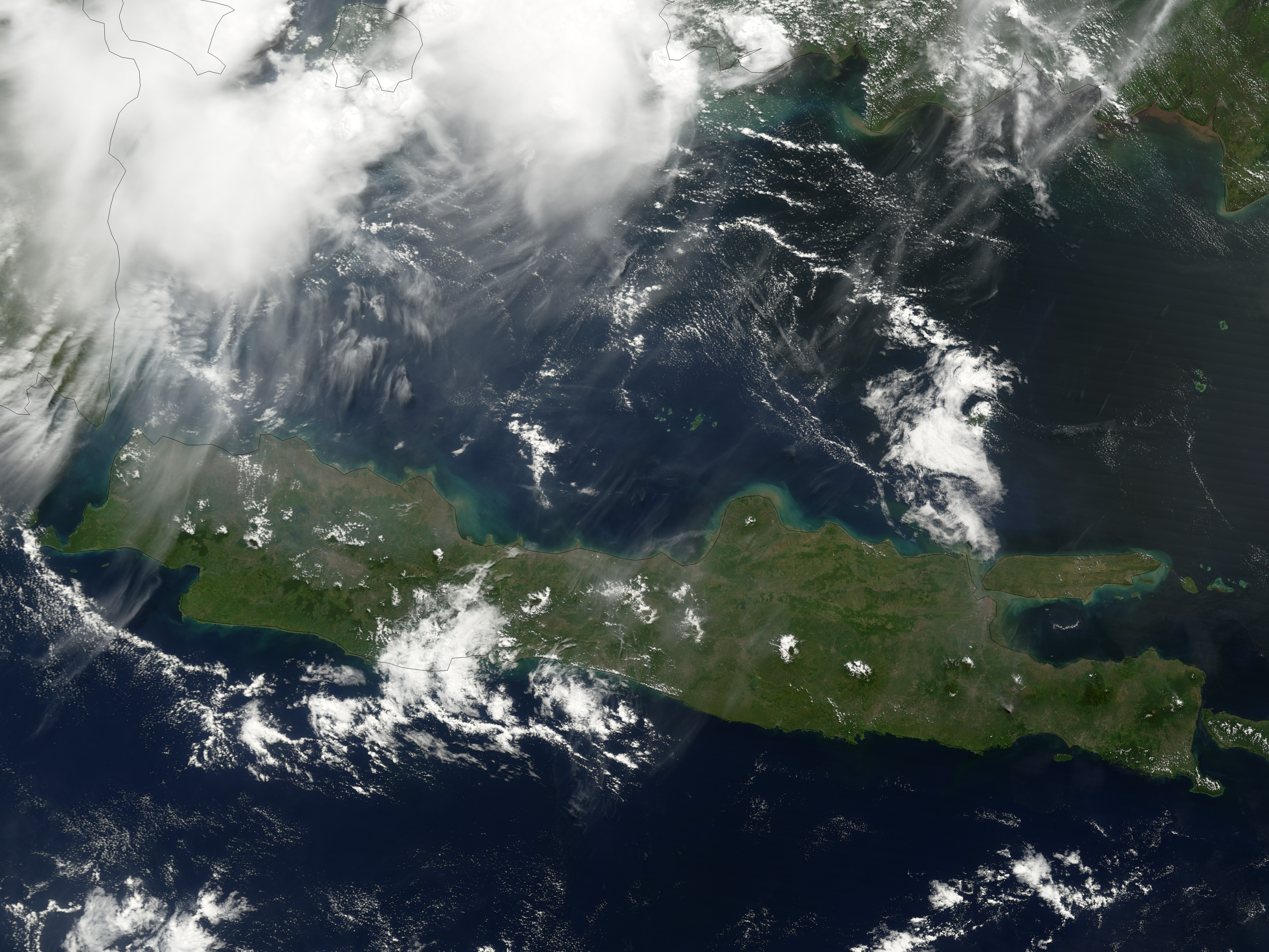 Mount Merapi, Central Java